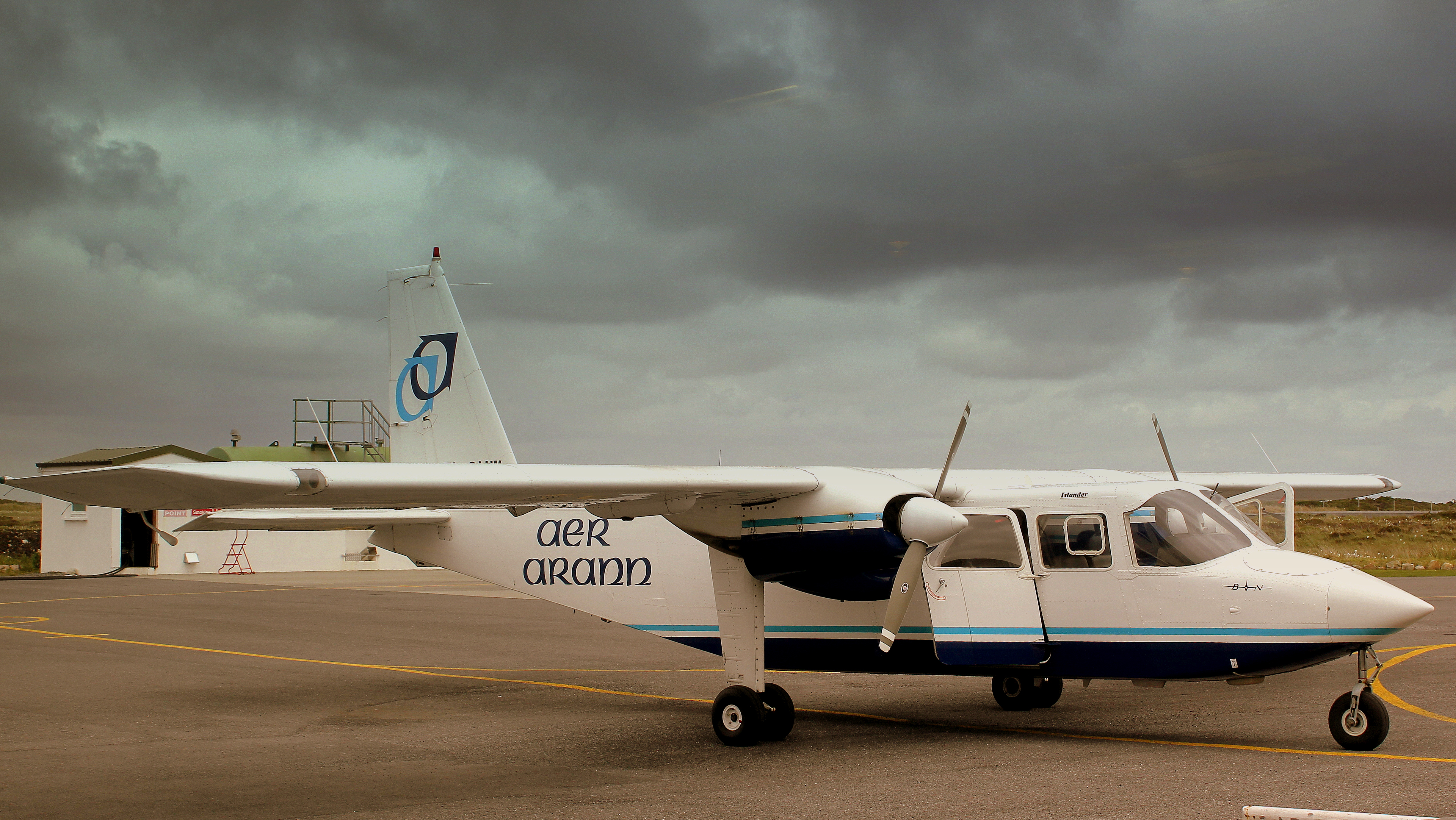 AER ARRAN ISLANDS BN2B ISLANDER EI-CUW AT INVERIN AIRPORT CONNEMARA IRELAND JULY 2013